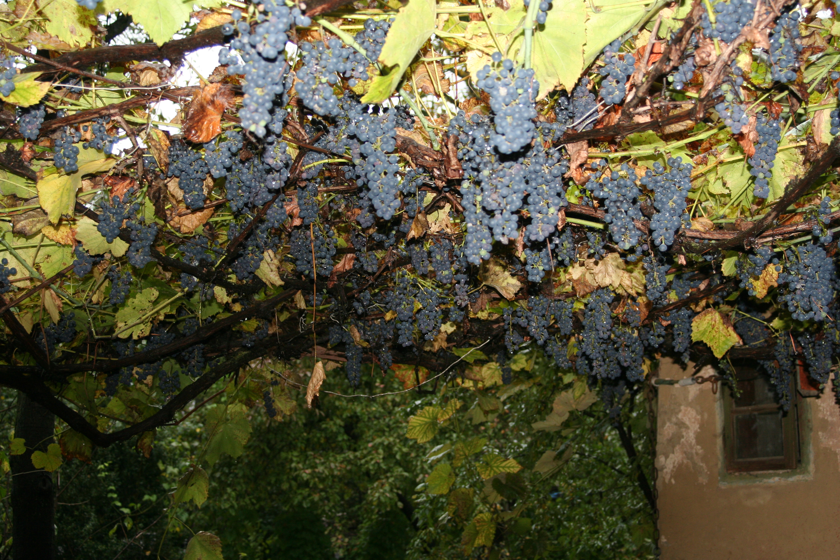 Grapes for Home Wine production, Chernivtsi Ukraine.